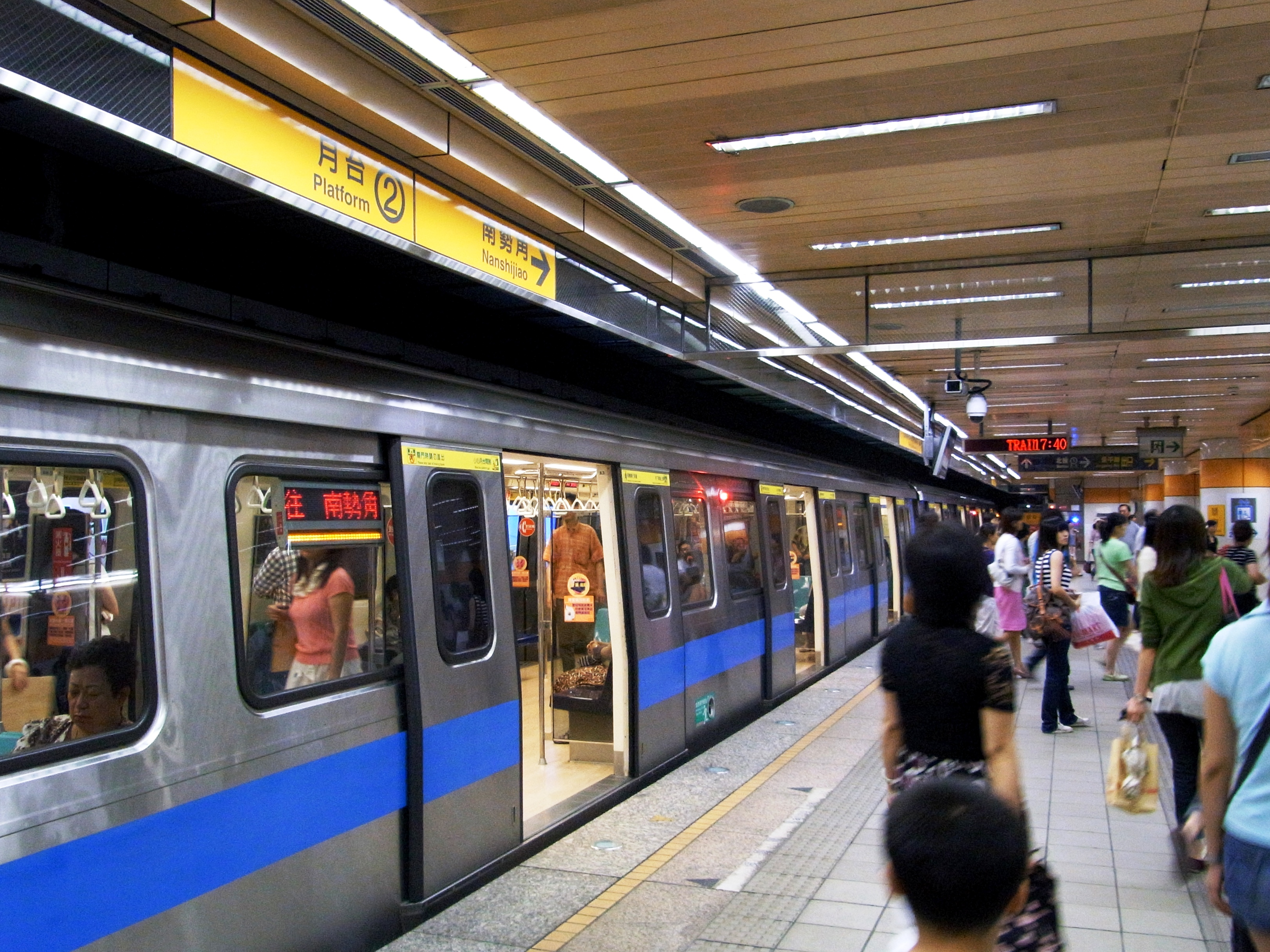 Platform 2, Jingan Station, Taipei Metro.